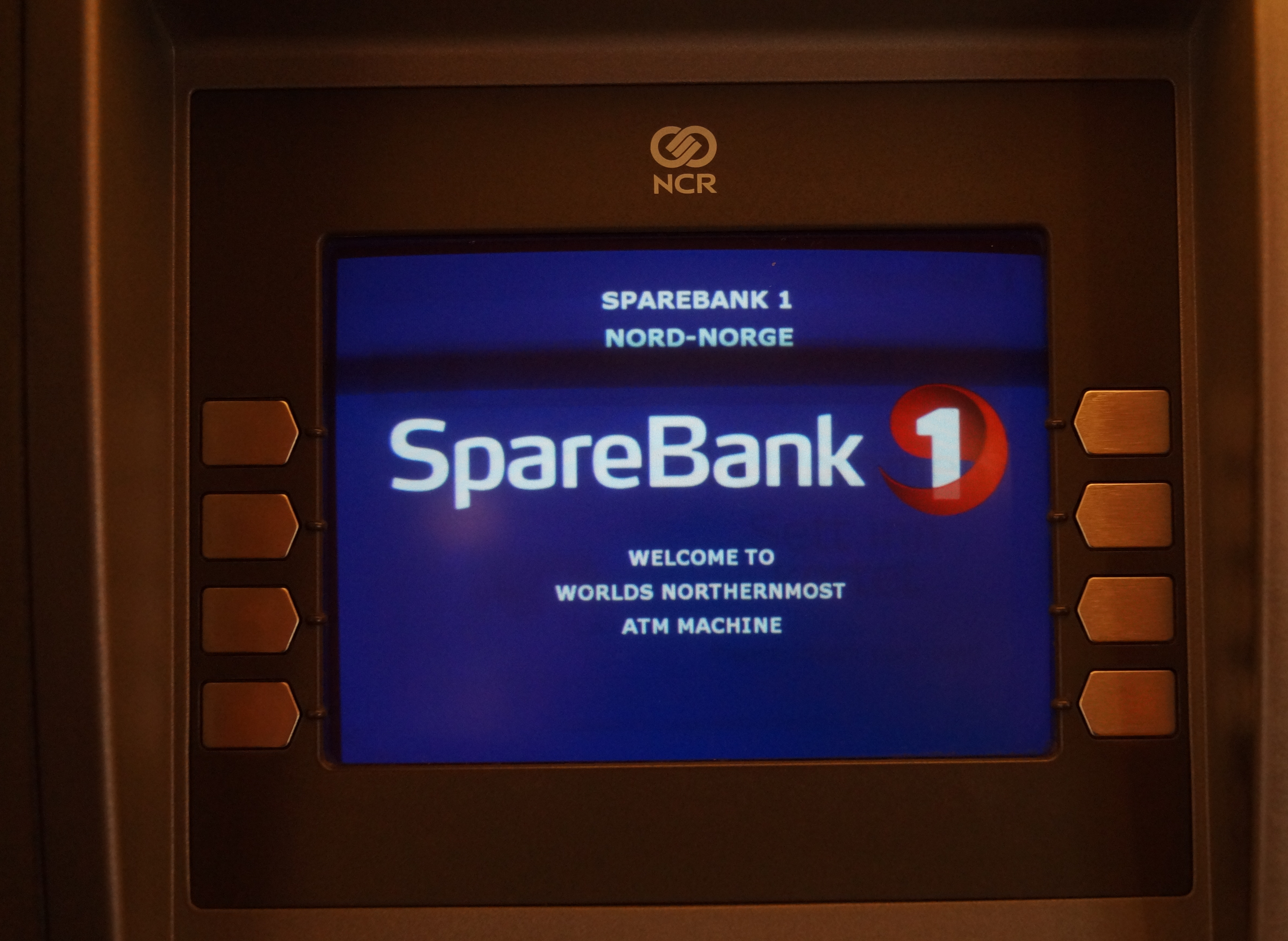 Welcome message displayed on the World's most northerly ATM machine located in the post office in Longyearbyen